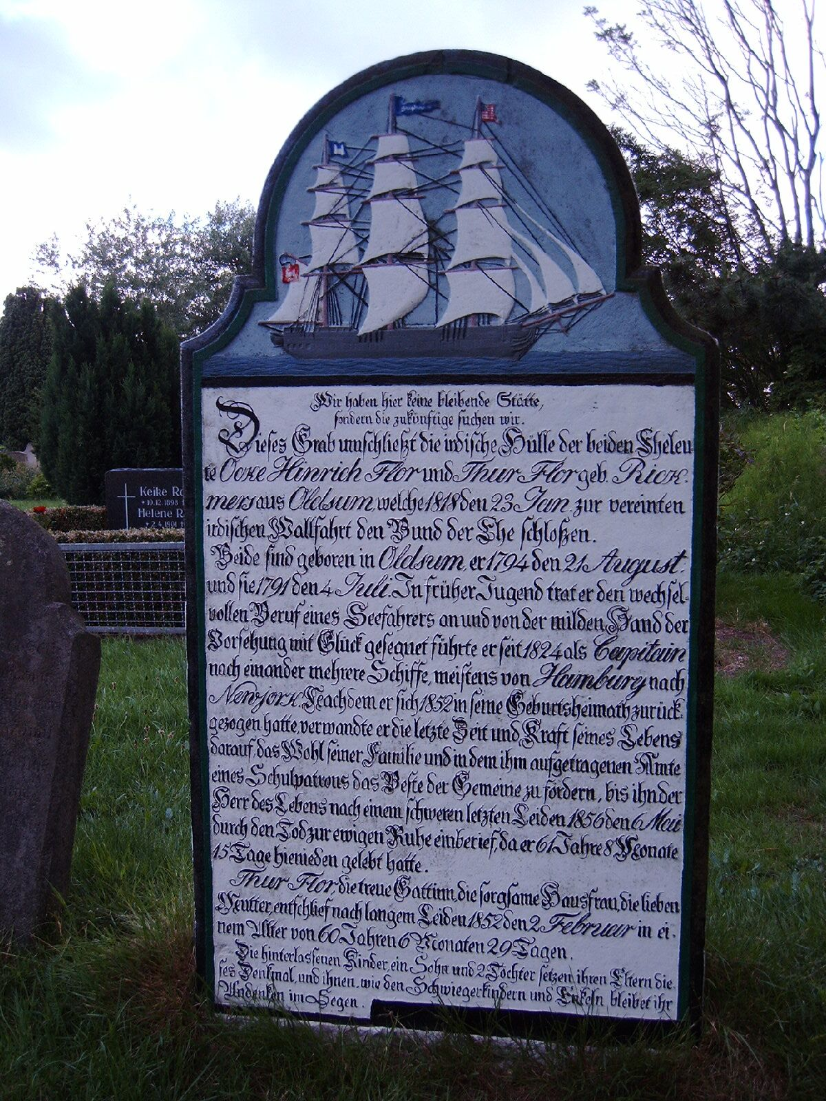 Gravestone in Süderende on Föhr. Text on Wikisource: Grabstein der Eheleute Flor